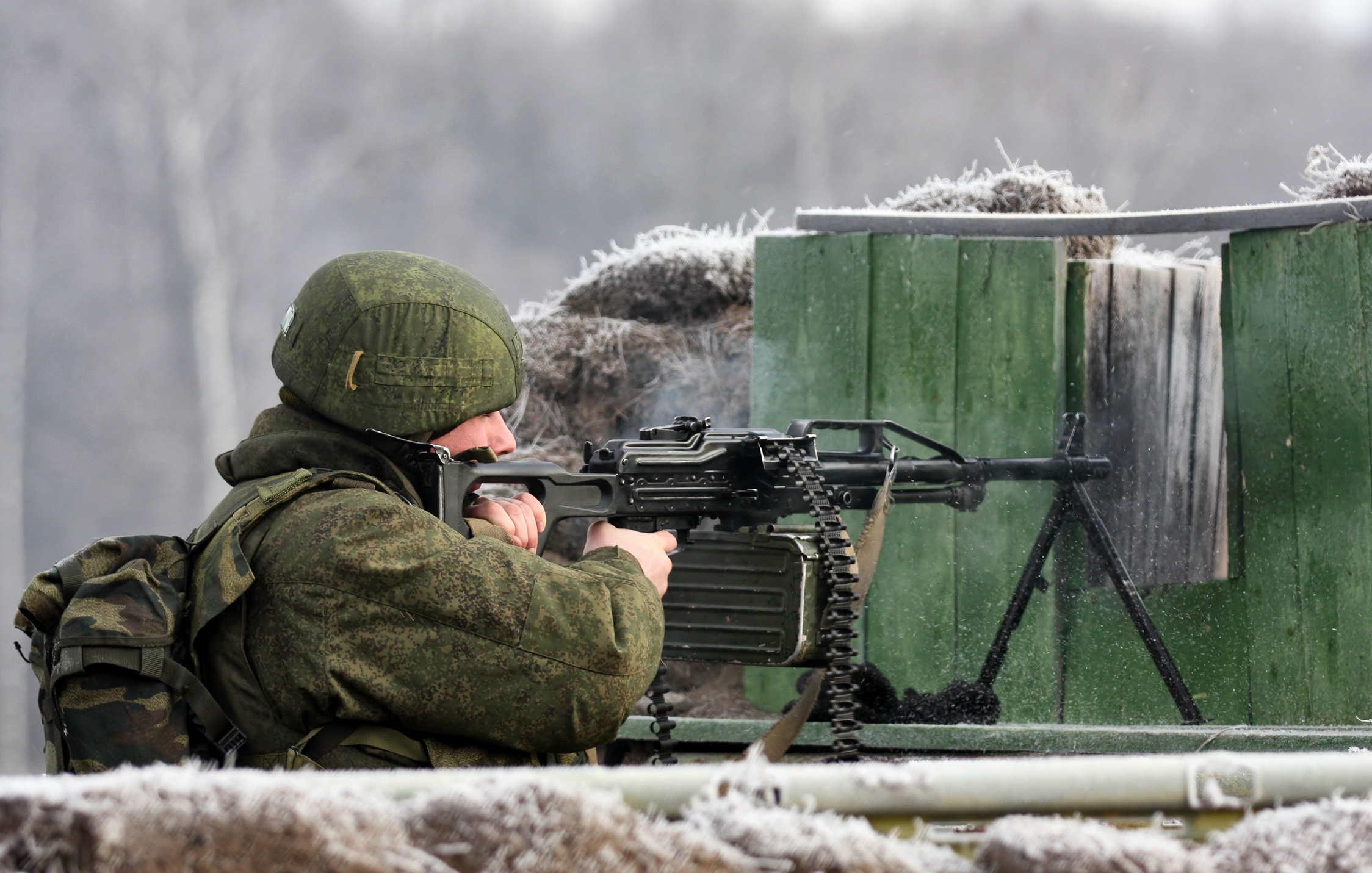 PKP Pecheneg machine gun